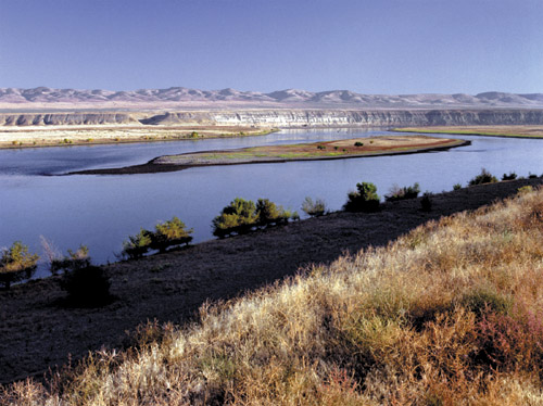 Columbia River in Hanford Reach National Monument, Washington